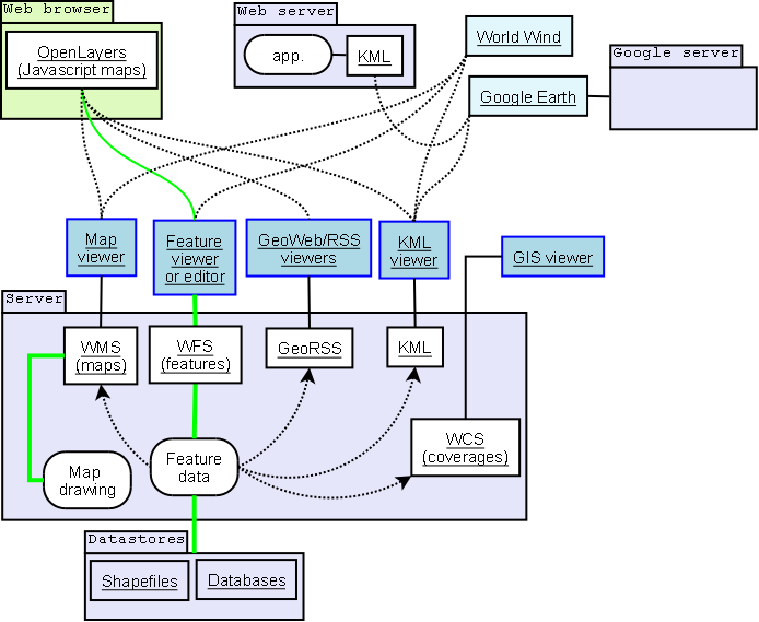 Geoservices server with interfaces and applications sketch. Green represents read and write paths. Dotted arrowed line indicates mostly read-only data flow.